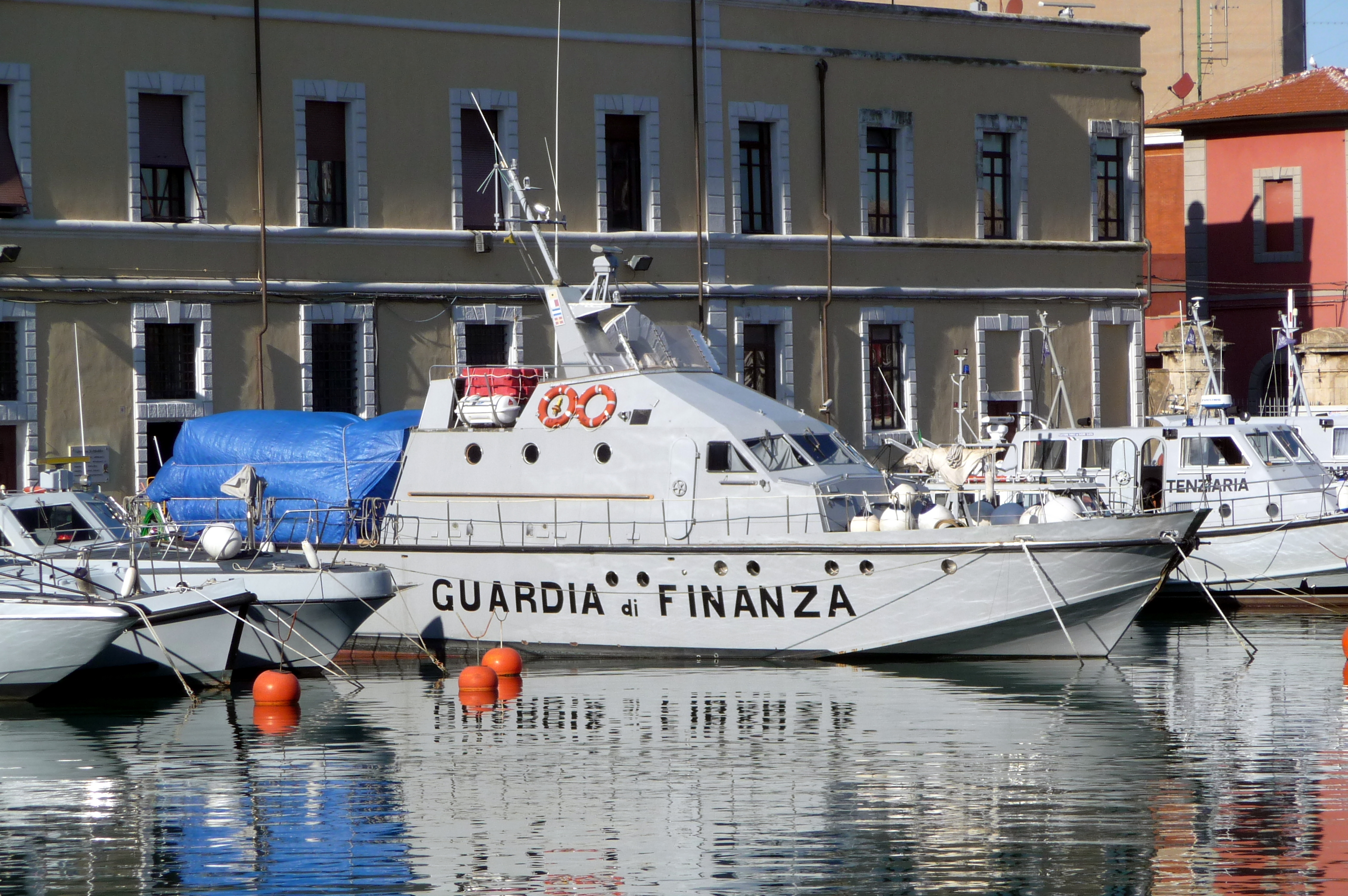 Guardia di Finanza - Guardacoste classe "Meattini" - Livorno, Italy